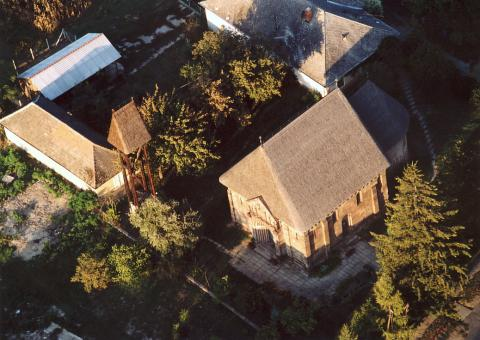 Karcsa, Hungary, aerialphotography